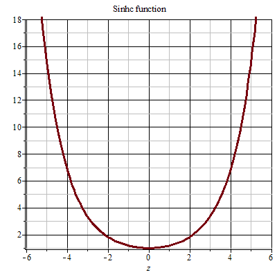 Sinhc 2D plot